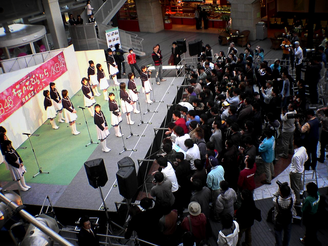 AKB48 was preparing to make a major debut.(March 26, 2006)